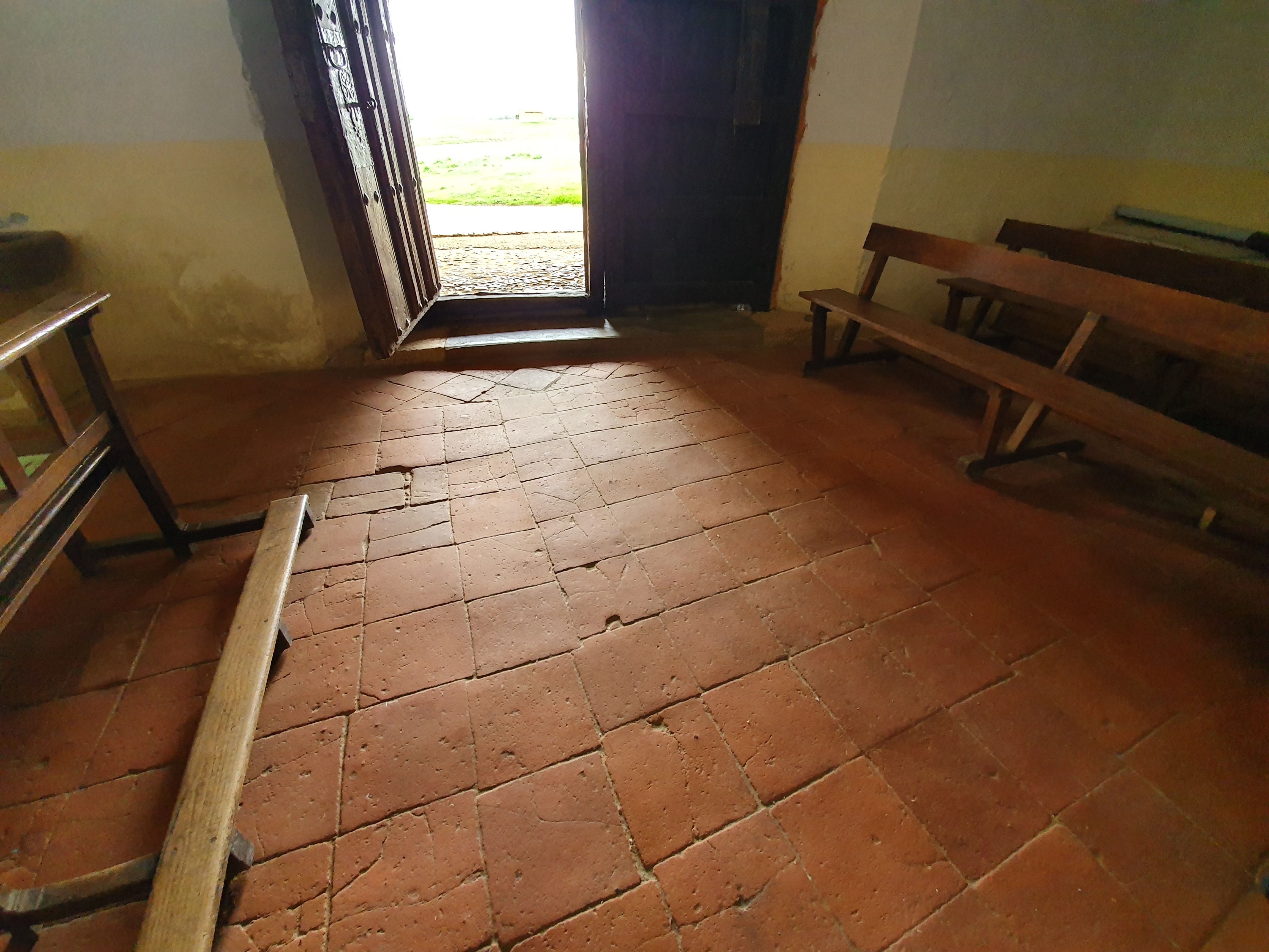 Interior of the Church of La Asunción in Villamelendro (Palencia, Castile and León).